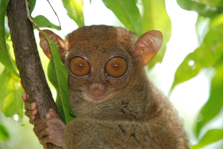 Carlito syrichta